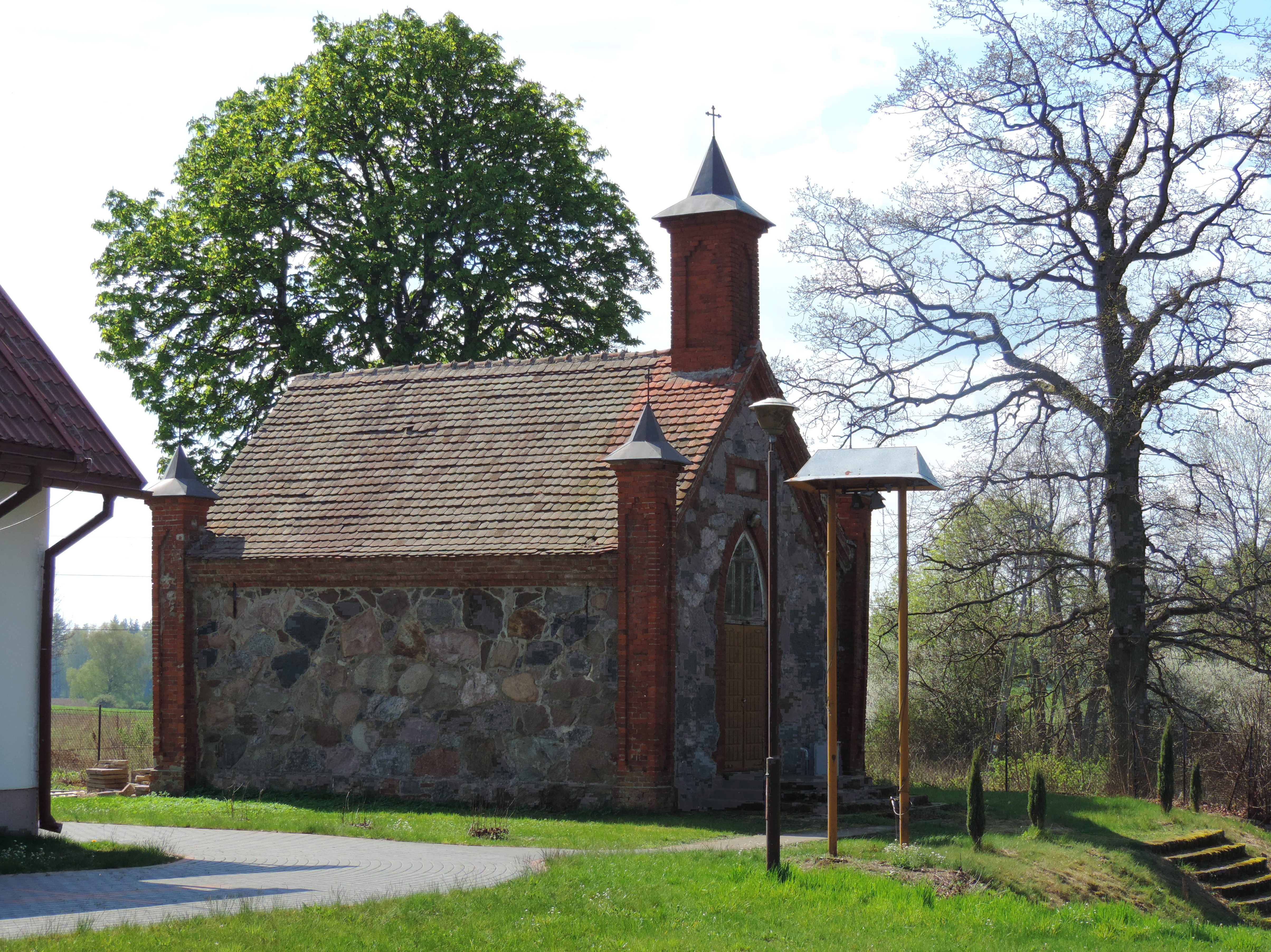 Chapel in Redkowicach, Nowa Wieś Lęborska commune